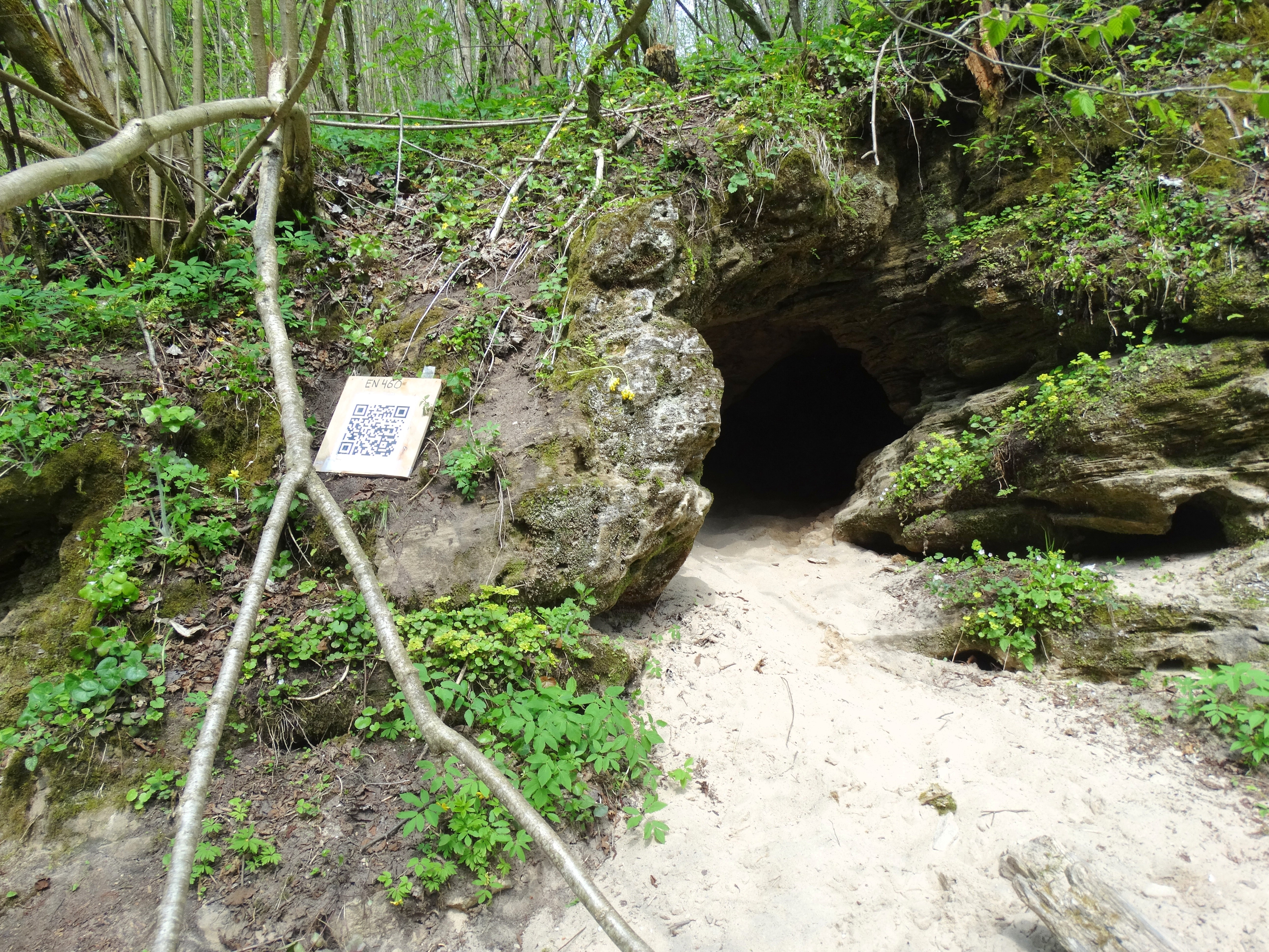 Cave by Čiobiškis, Širvintos District, Lithuania